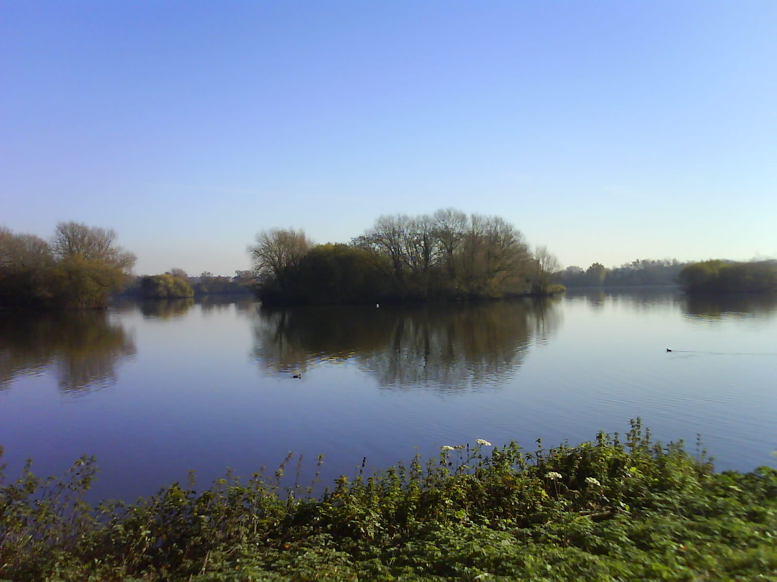 One of the many bodies of water at Kingsbury Water Park.